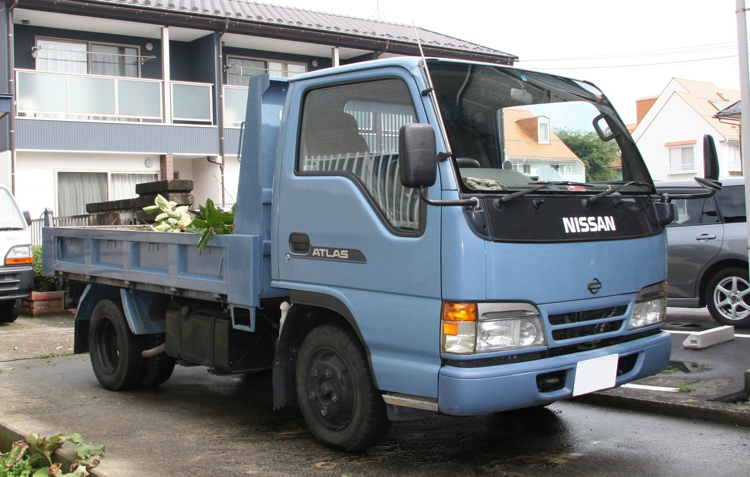 NISSAN Atlas